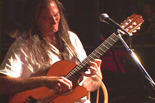 Brian Rolland live in 2002